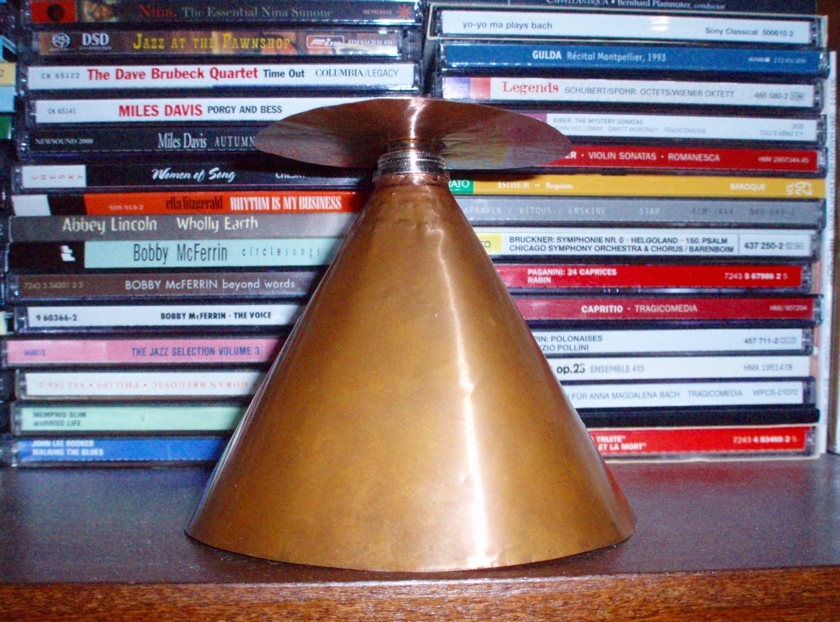 Discone antenna made of solid copper sheets, with a theoretical frequency range of 700Mhz to 2Ghz.